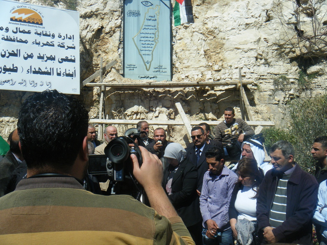 On Thursday, March 22, 2012, Palestinians erected a memorial for the six children and their teacher who were killed in a bus crash accident on February 16, 2012.